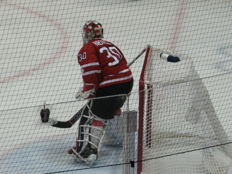 Canada goaltender Martin Brodeur watches the action against United States during the 2010 Winter Olympics